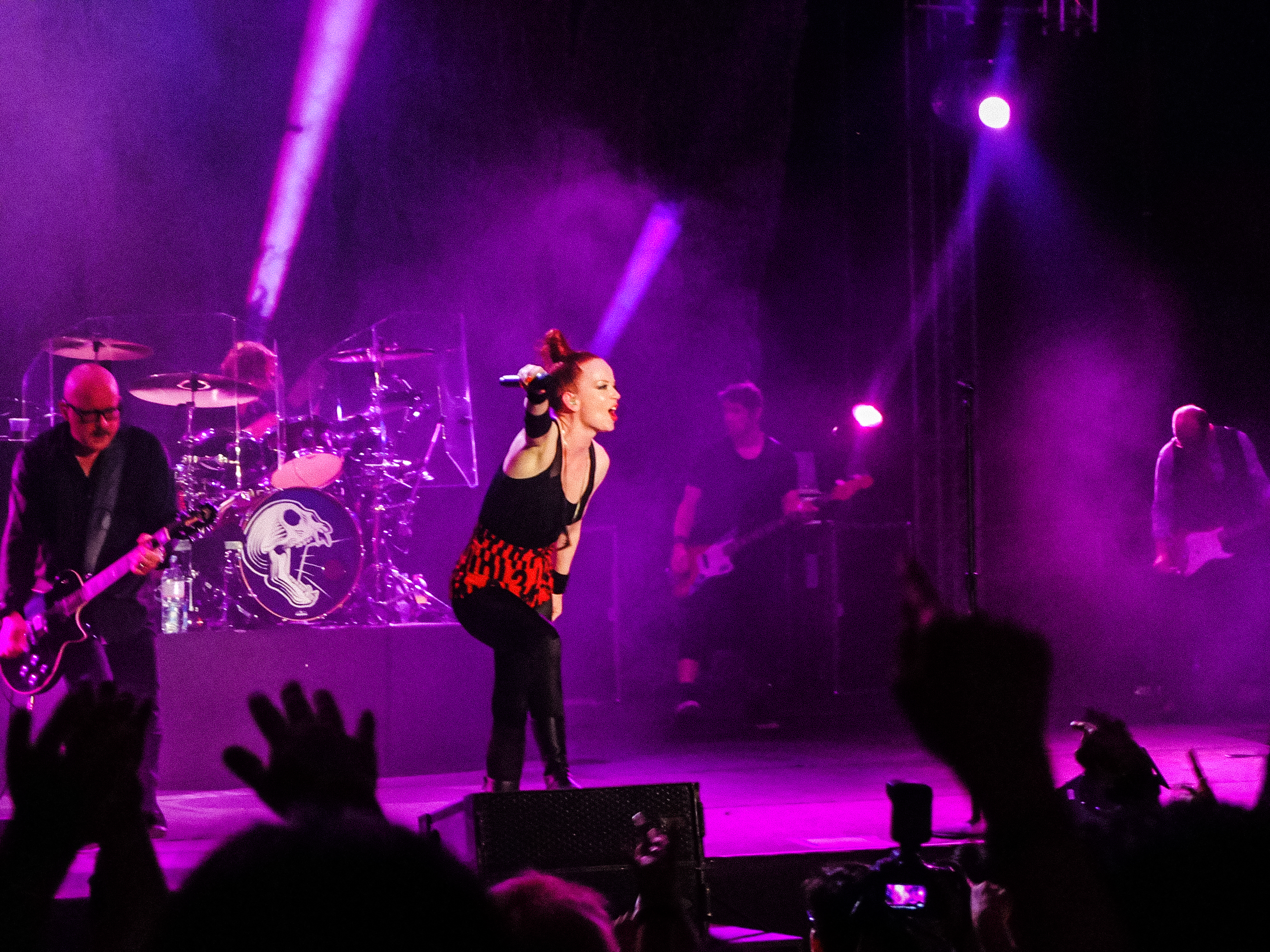 Garbage live